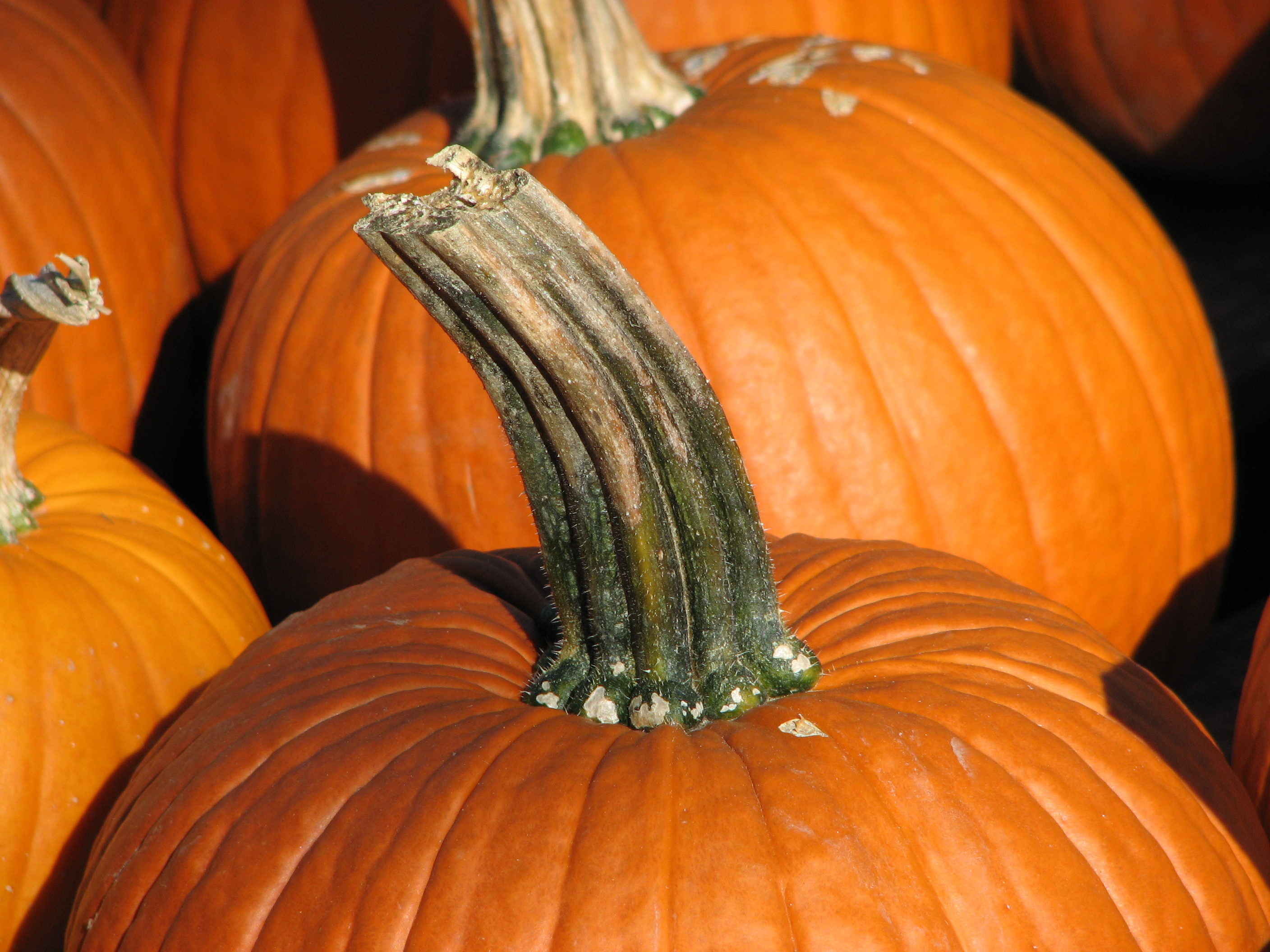 A shot of a pumpkin, focused on its stem.